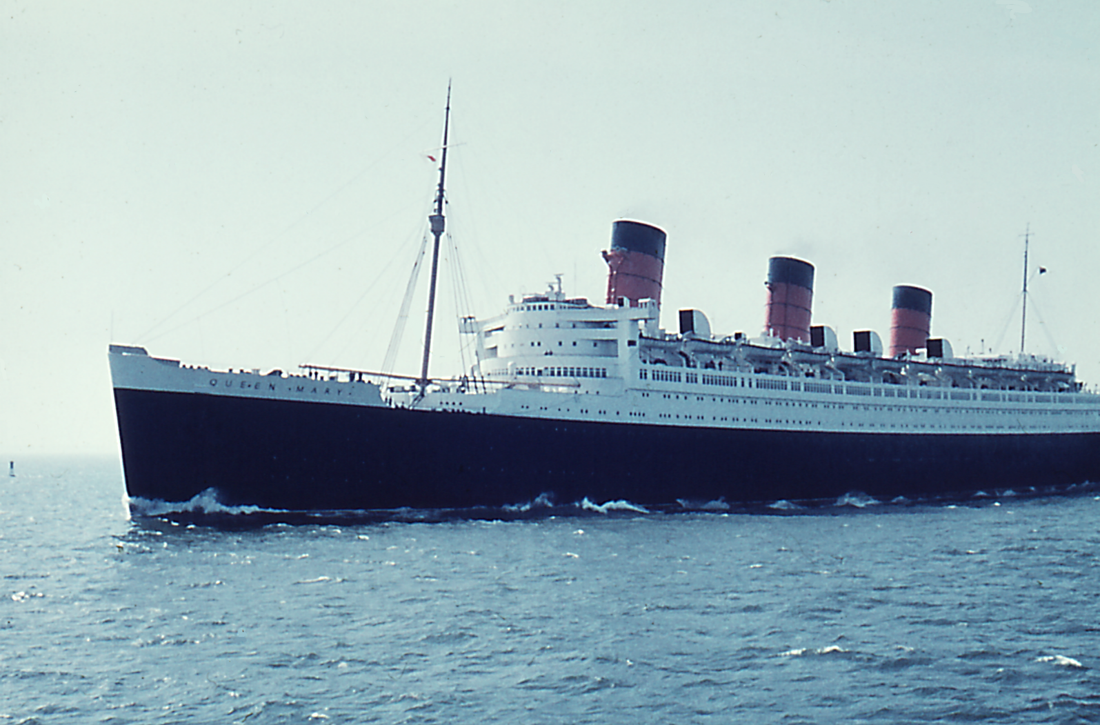 " The liner "Queen Mary I ", bounded west in the German Bight. Right off her bow a green buoy, at the ship´s starboard side. Close distance photo, taken from the M.V. " Reifenstein", N.D. L. without a zoom lens on reciprocal course. Autor: Buonasera Quelle: own image